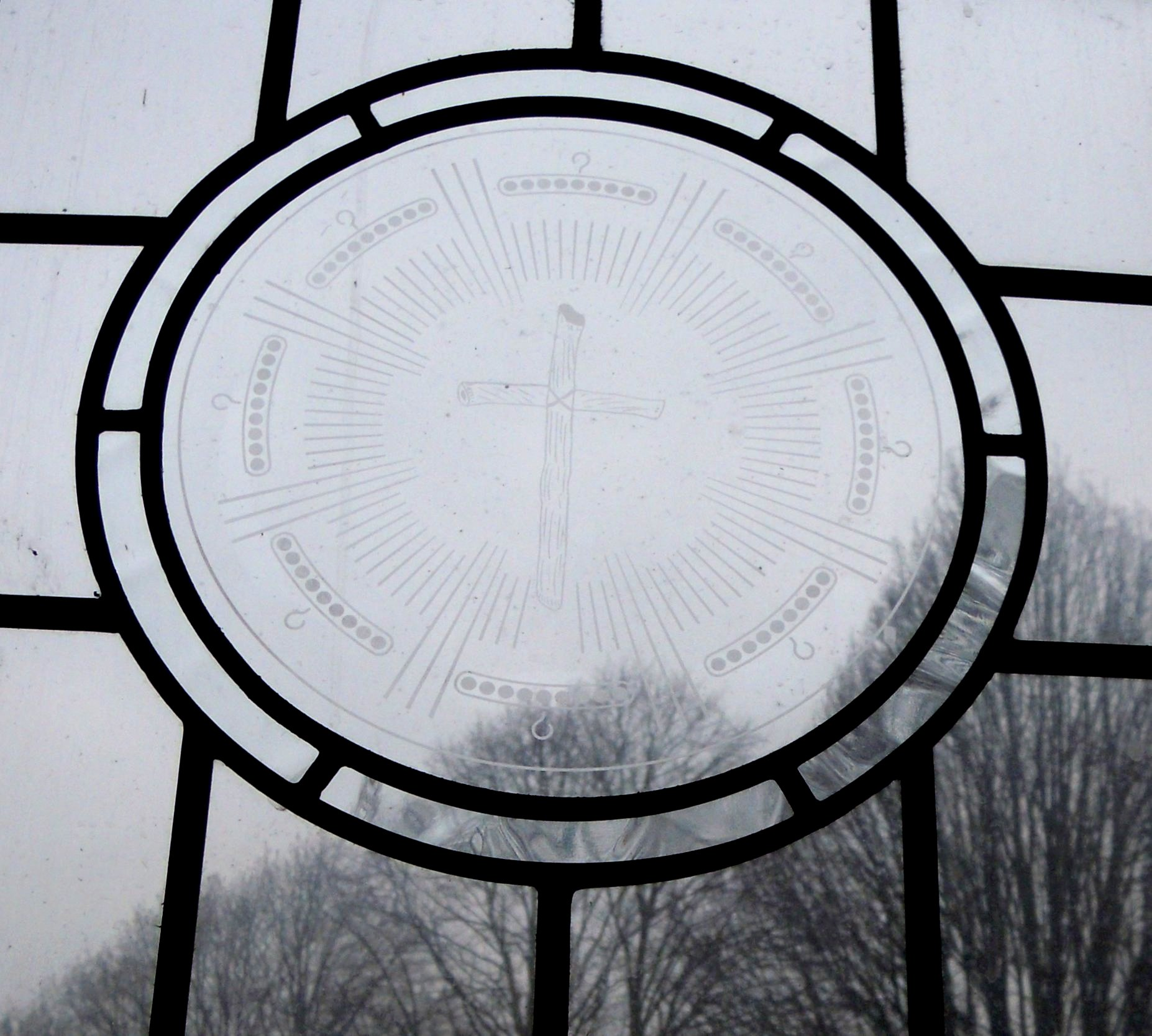 The Coathanger Window of St. Mary the Virgin in Baldock